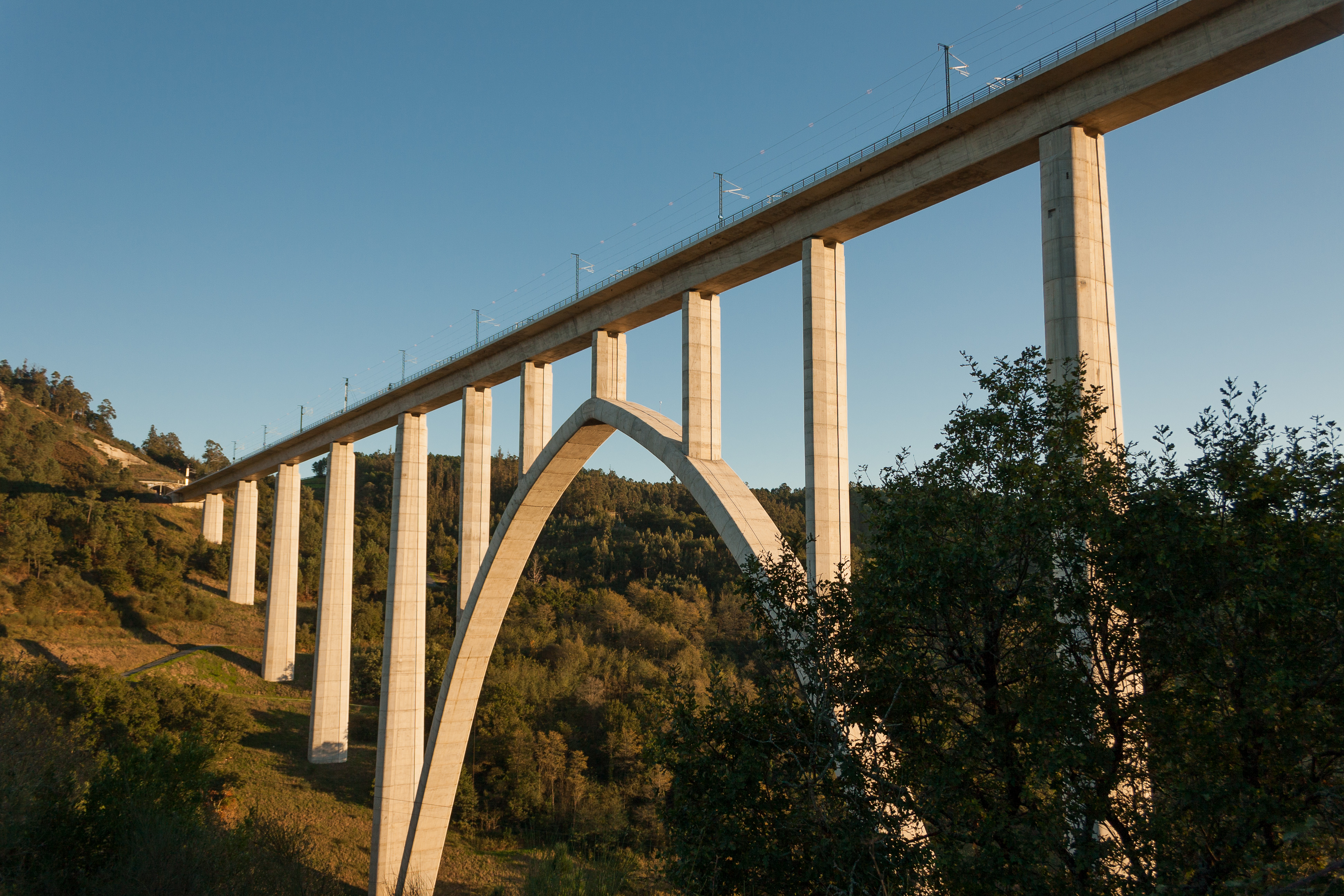 New Gundián bridge, Ponte Ulla.